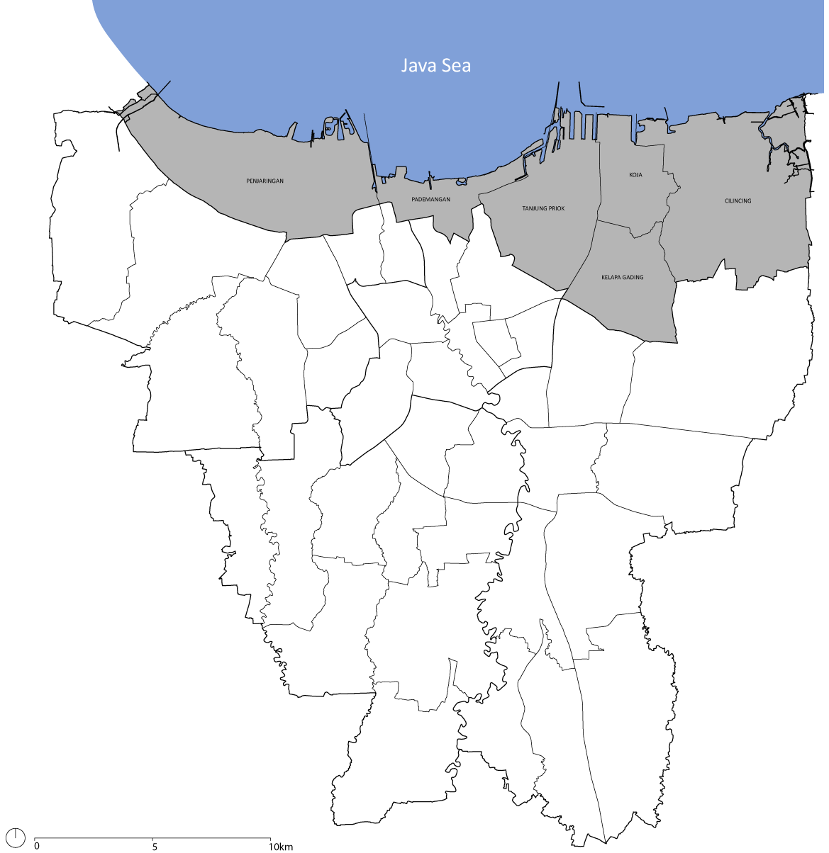 City (Kota Administrasi) of North Jakarta, divided into several Subdistricts (Kecamatan)